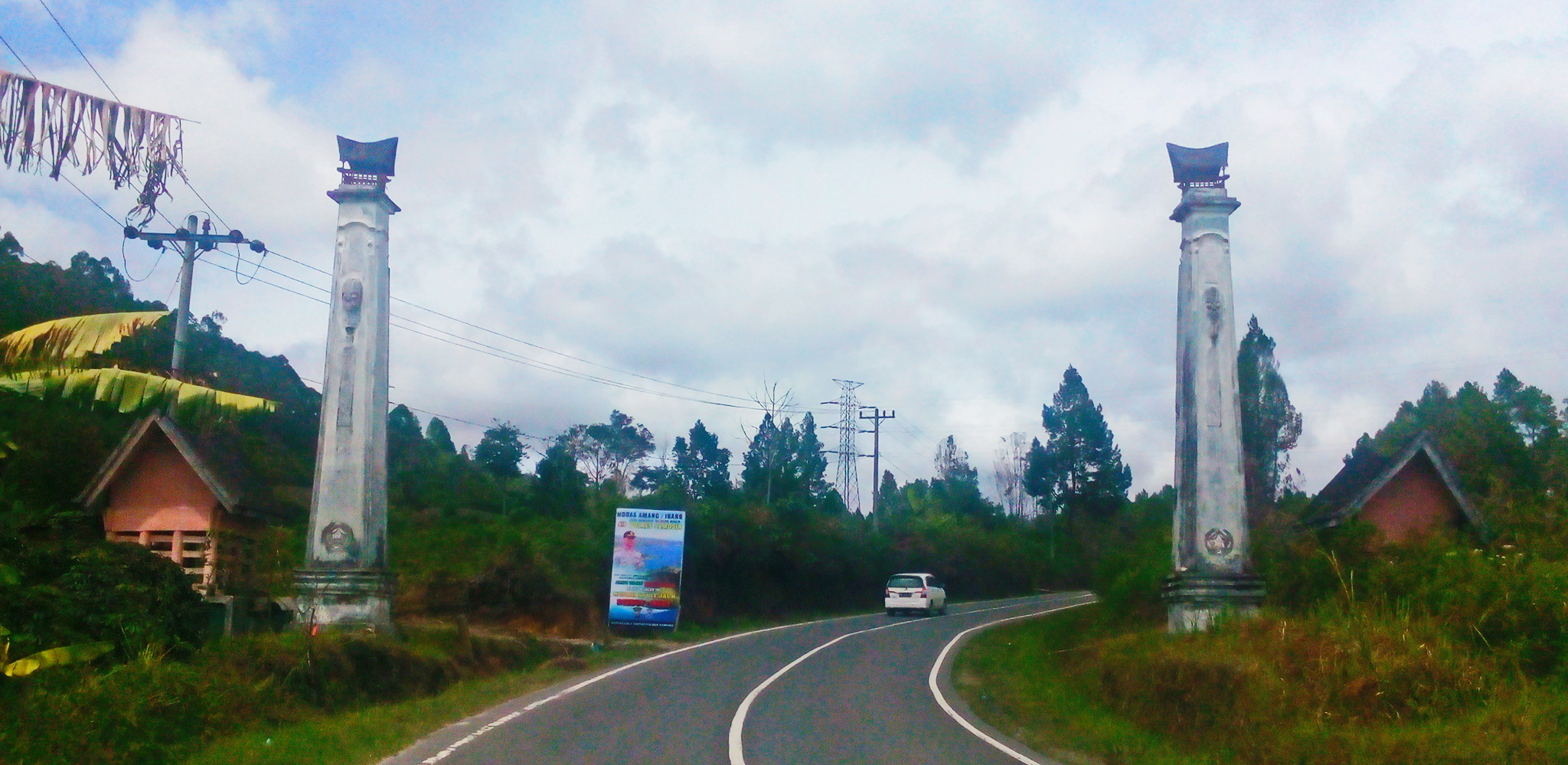 Welcome gate to Samosir, Sumatra Utara